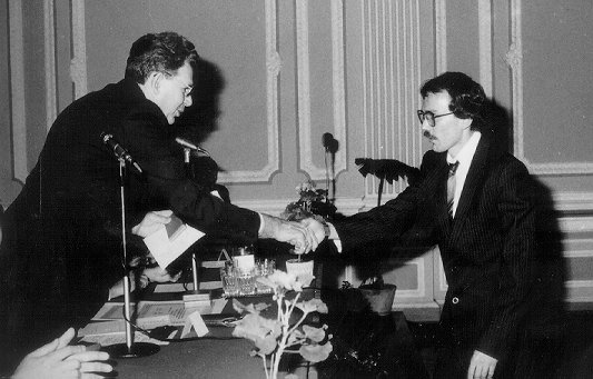 Gyula Kristó Rector of The University JATE (left) and Tibor Csendes student(right), 1984